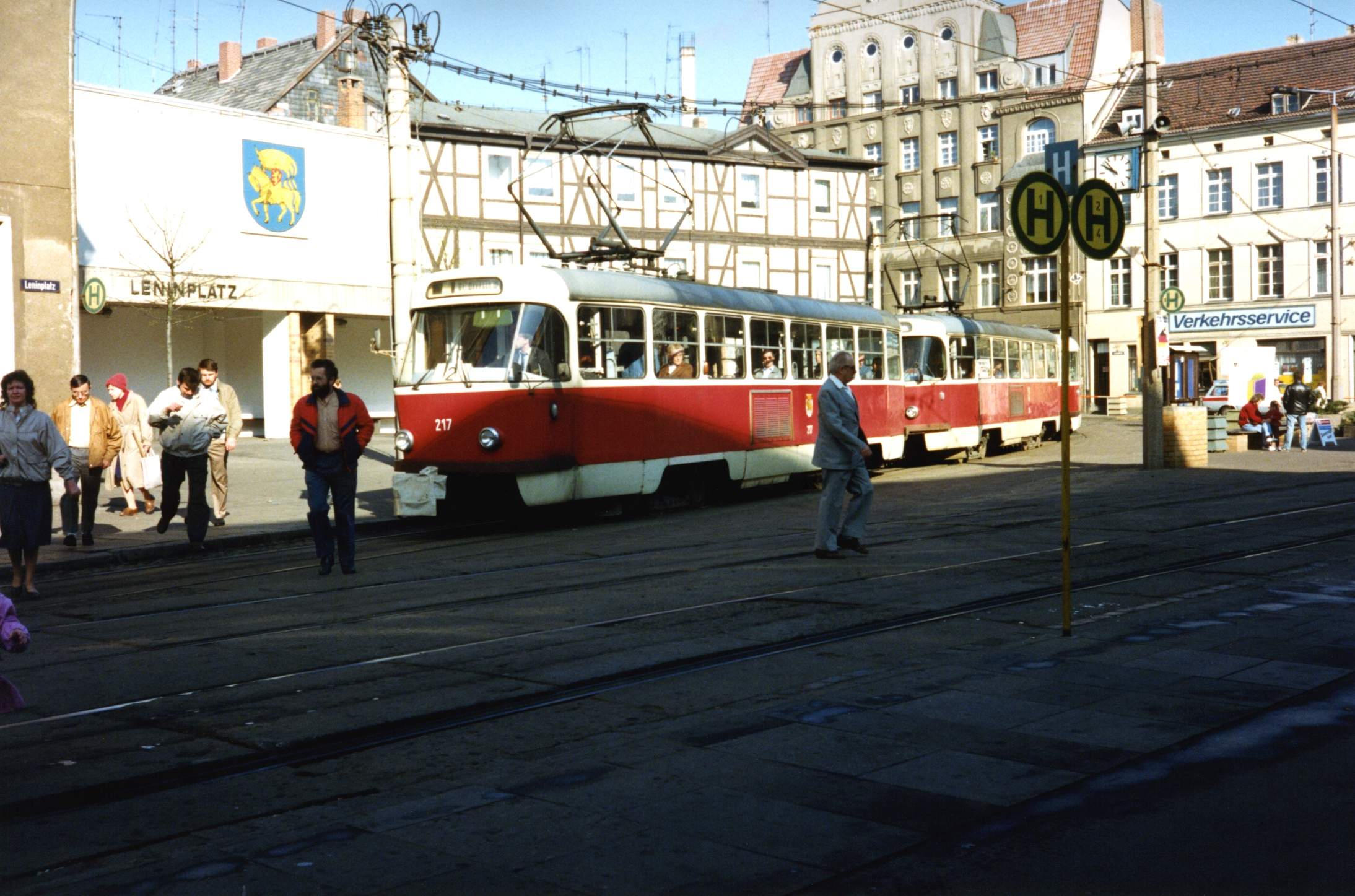 Schwerin Marienplatz